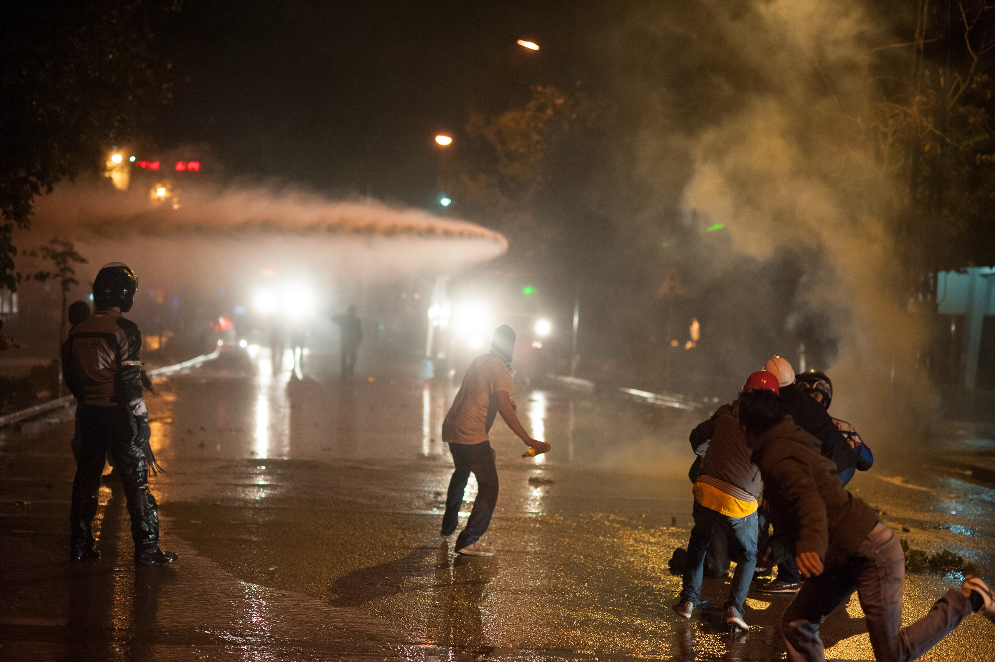 Clashes with police during protests in Ankara (tear gass application). Events of June 7-8, 2013.